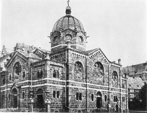 Synagogue of Marburg, built in 1897 and destroyed by the nazis in 1938 during the Kristal Nacht.